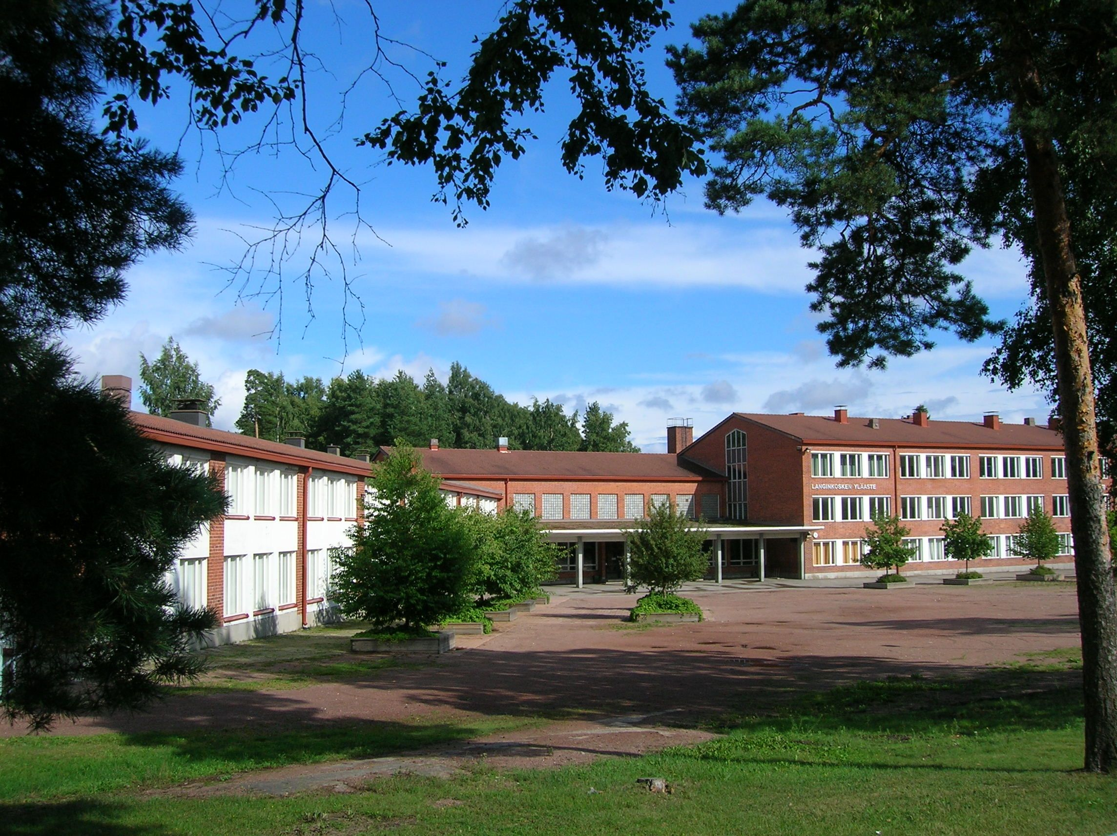 Langinkosken koulu, a school in Kotka, Finland.